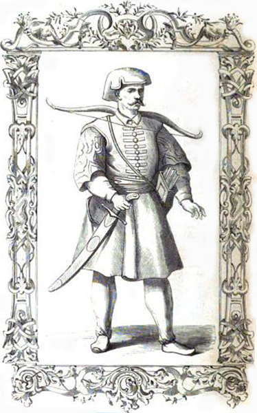 Azap, galley's archer. Engraving by Cesare Vecellio.